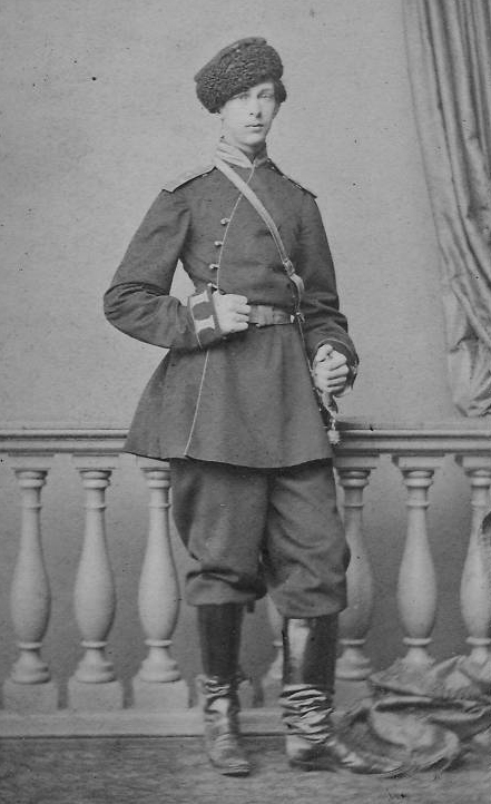 Grand Duke Dimitri Constantinovich in his youth